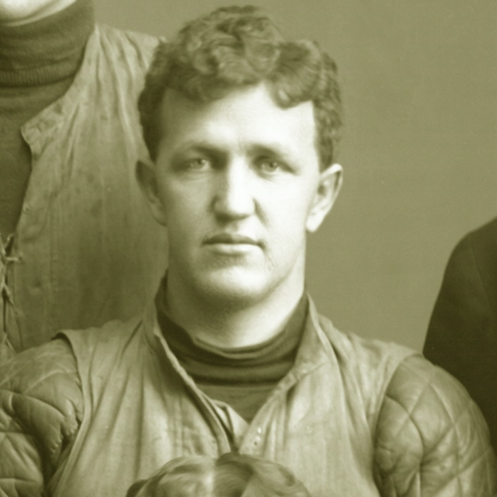 Photograph of George W. Gregory